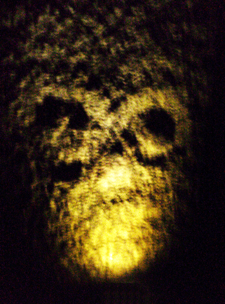 Image of inscultures in dolmen of Aboboreira